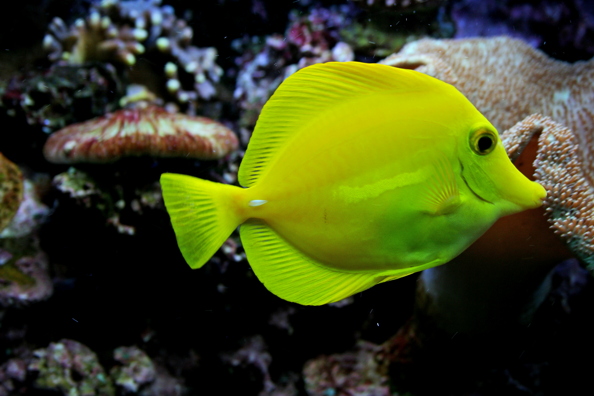 Fish Yellow tang, Zebrasoma flavescens in Prague sea aquarium, Czech Republic